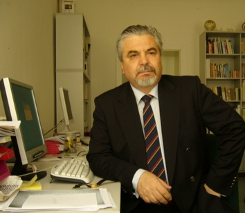 Biographical / Author picture.